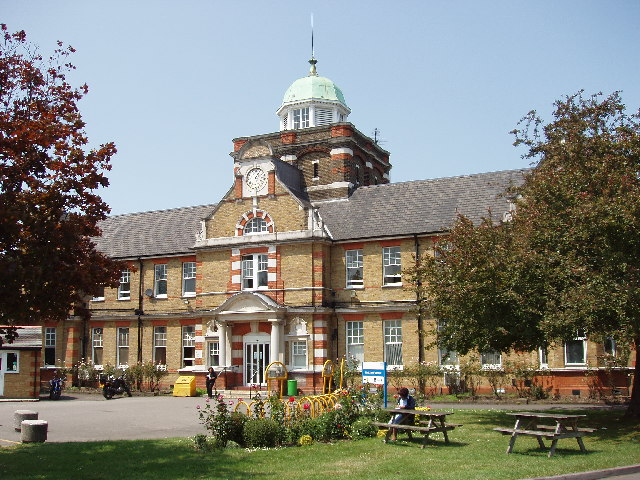 Central Middlesex Hospital, Clock Tower entrance.